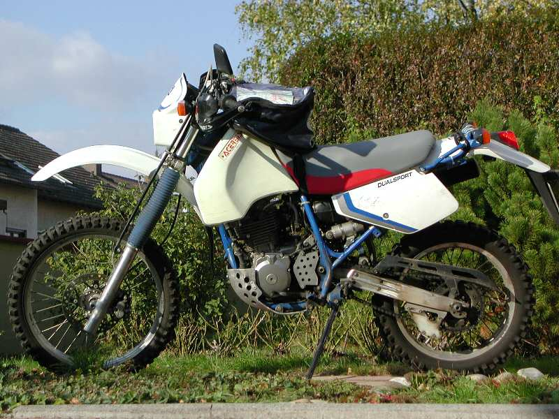 Motorcycle Suzuki DR350S from 1990, modified